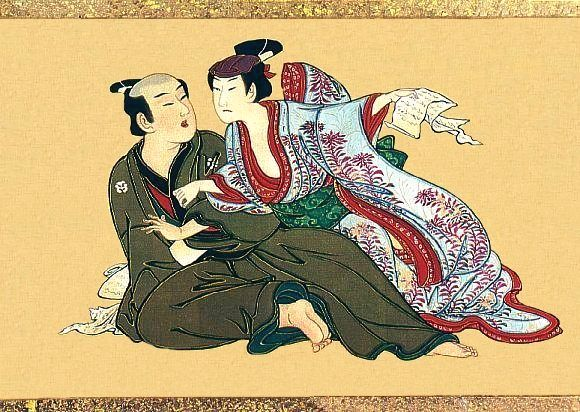 Spring PastimesNanshoku-type tryst between an adult man and a young male kabuki actor. Kabuki actors who played female roles were known as onnagata or kagema and doubled as sex workers. They were much sought after by the sophisticates of the day. Shunga hand scroll (kakemono-e); sumi, color and gofun on silk. Private collection.